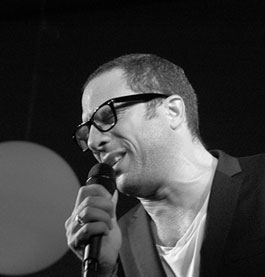 Bobo morene singer